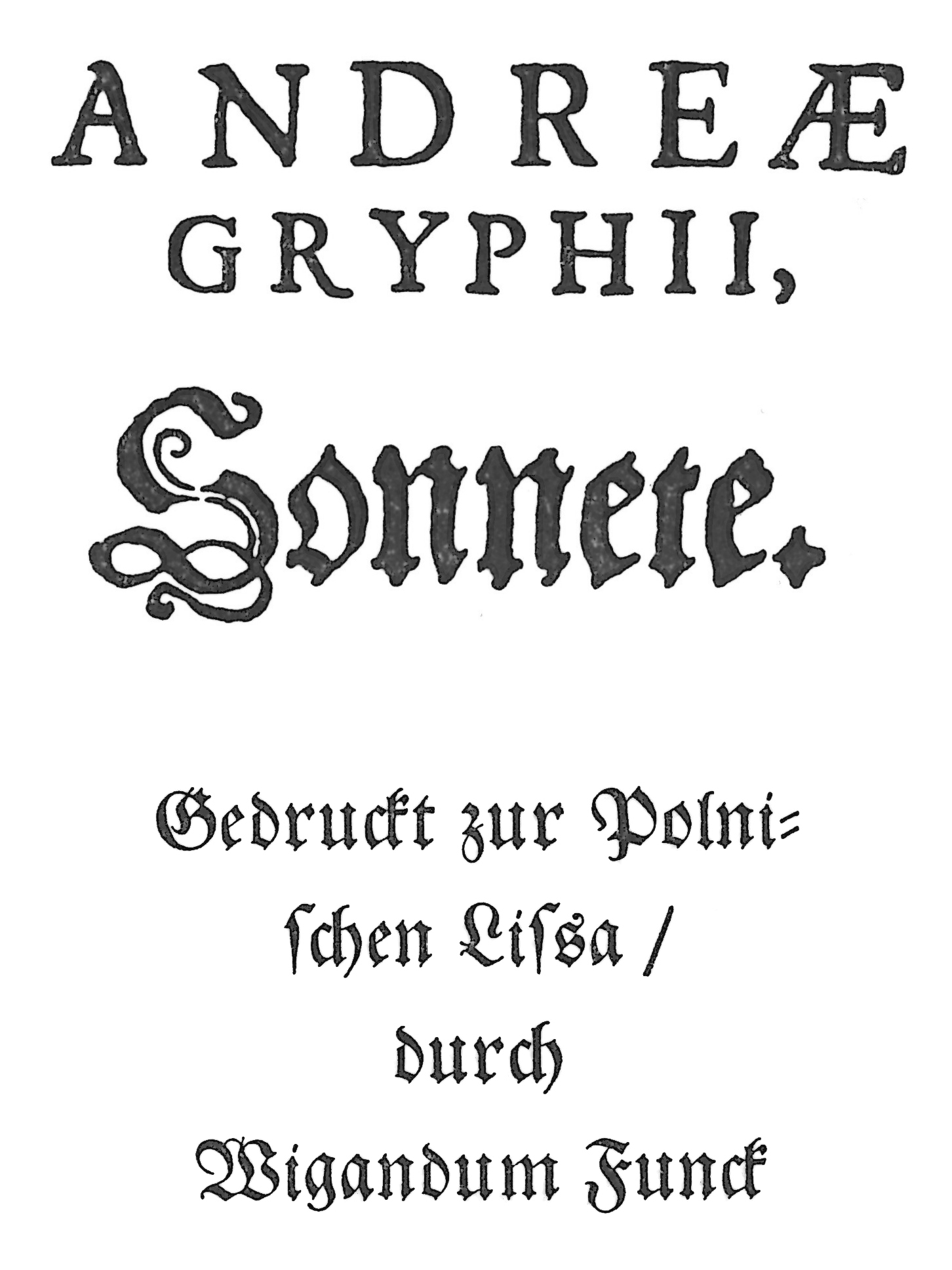 Title page and publisher of Andreas Gryphius' Lissaer Sonette, published in 1637